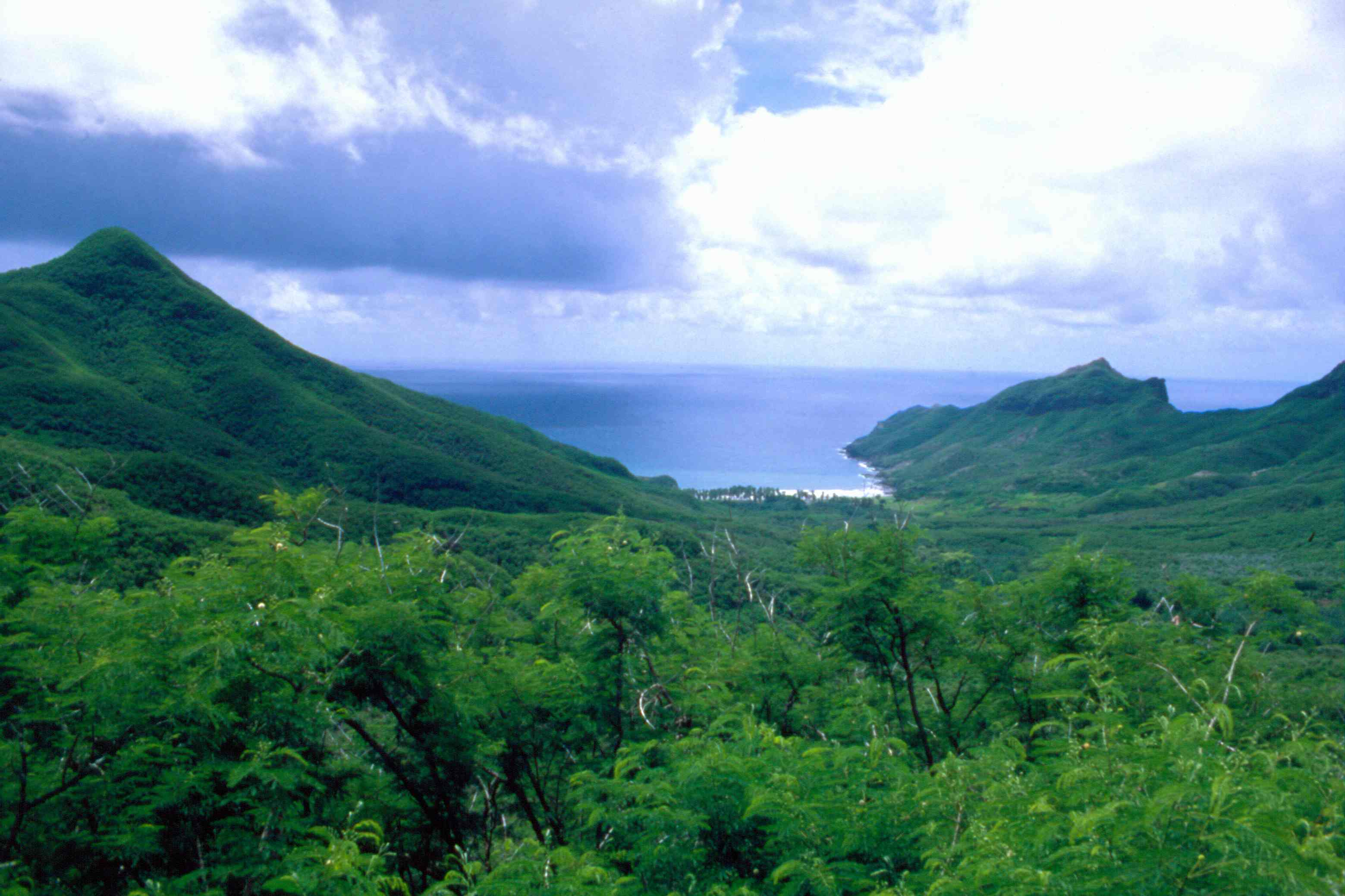 Bay of Hakahau, Ua Pou Island, Maquesas Islands, French Polynesia